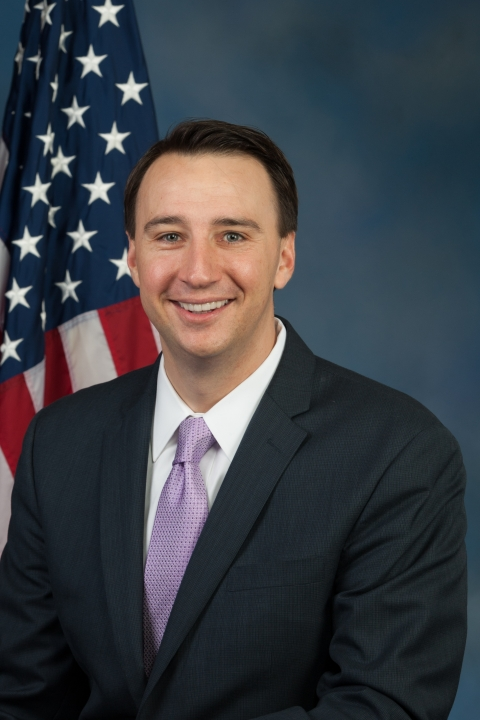 Ryan Costello